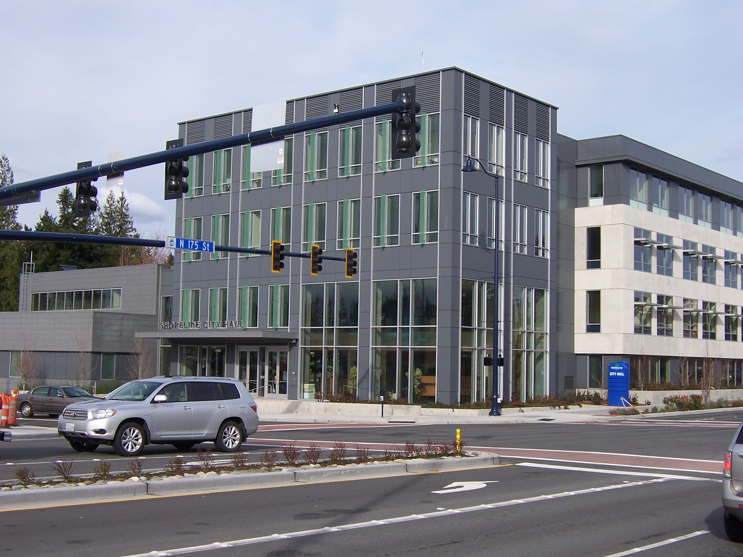 Looking northeast towards City Hall at the corner of Midvale Avenue and 175th St in Shoreline, Washington, USA.